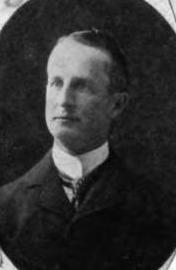 Portrait of New York assemblyman Frank C. Platt